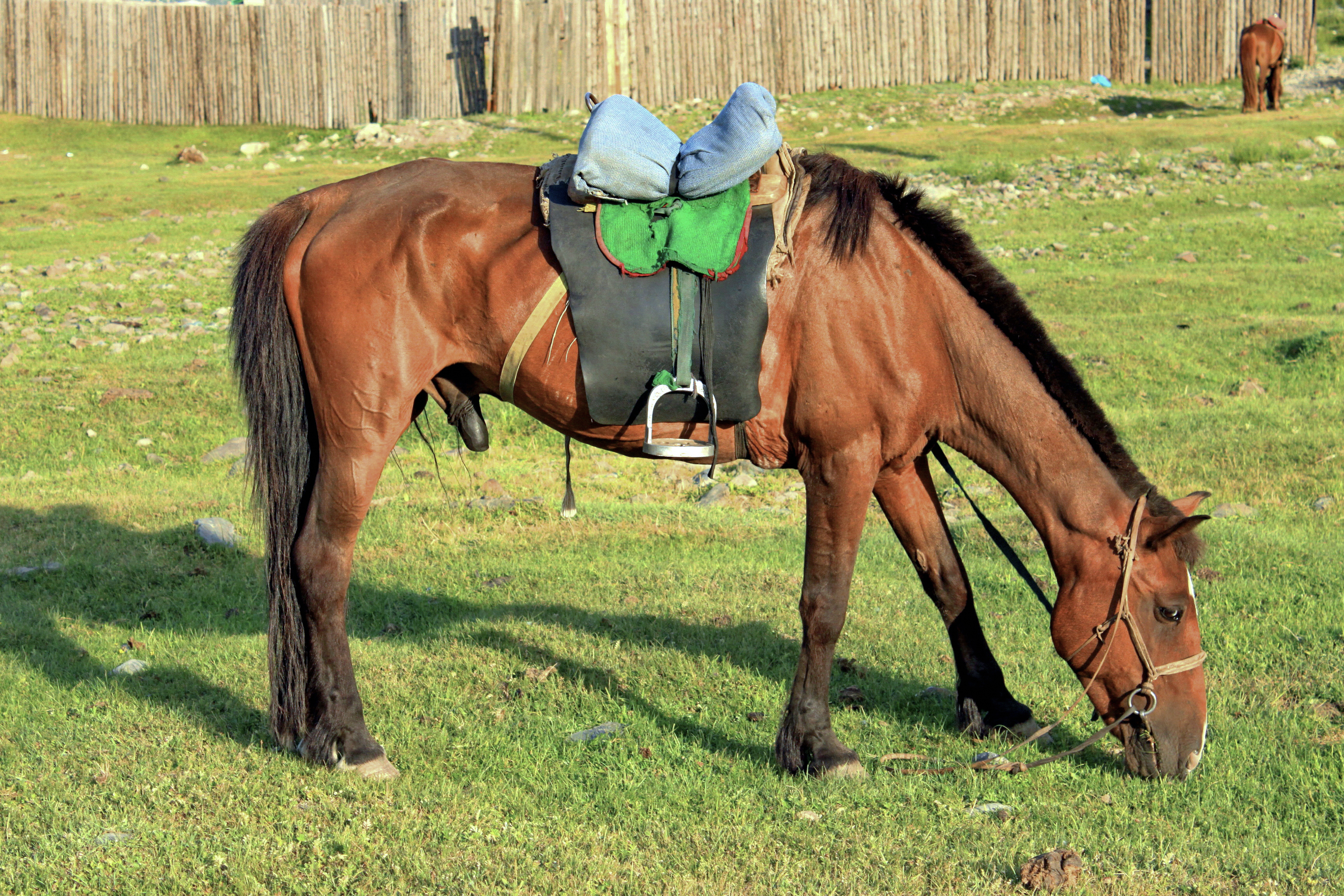 Mongolian horse. Gorkhi-Terelj National Park. Mongolia.